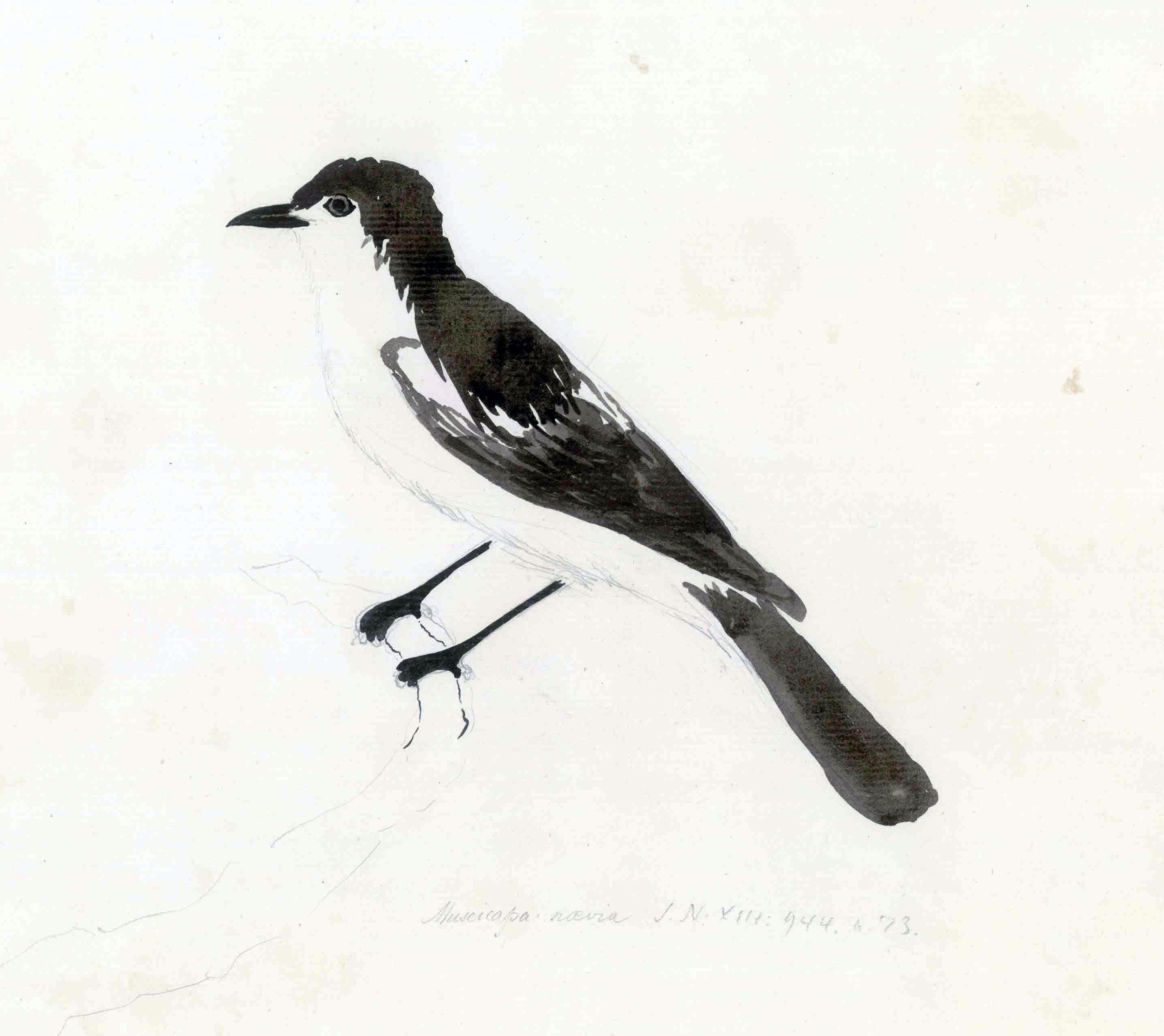 Ff. 159. Watercolour painting by George Forster annotated 'Muscicapa naevia'. Made during Captain James Cook's second voyage to explore the southern continent (1772-75). © Reproduced by kind permission of The Natural History Museum, London